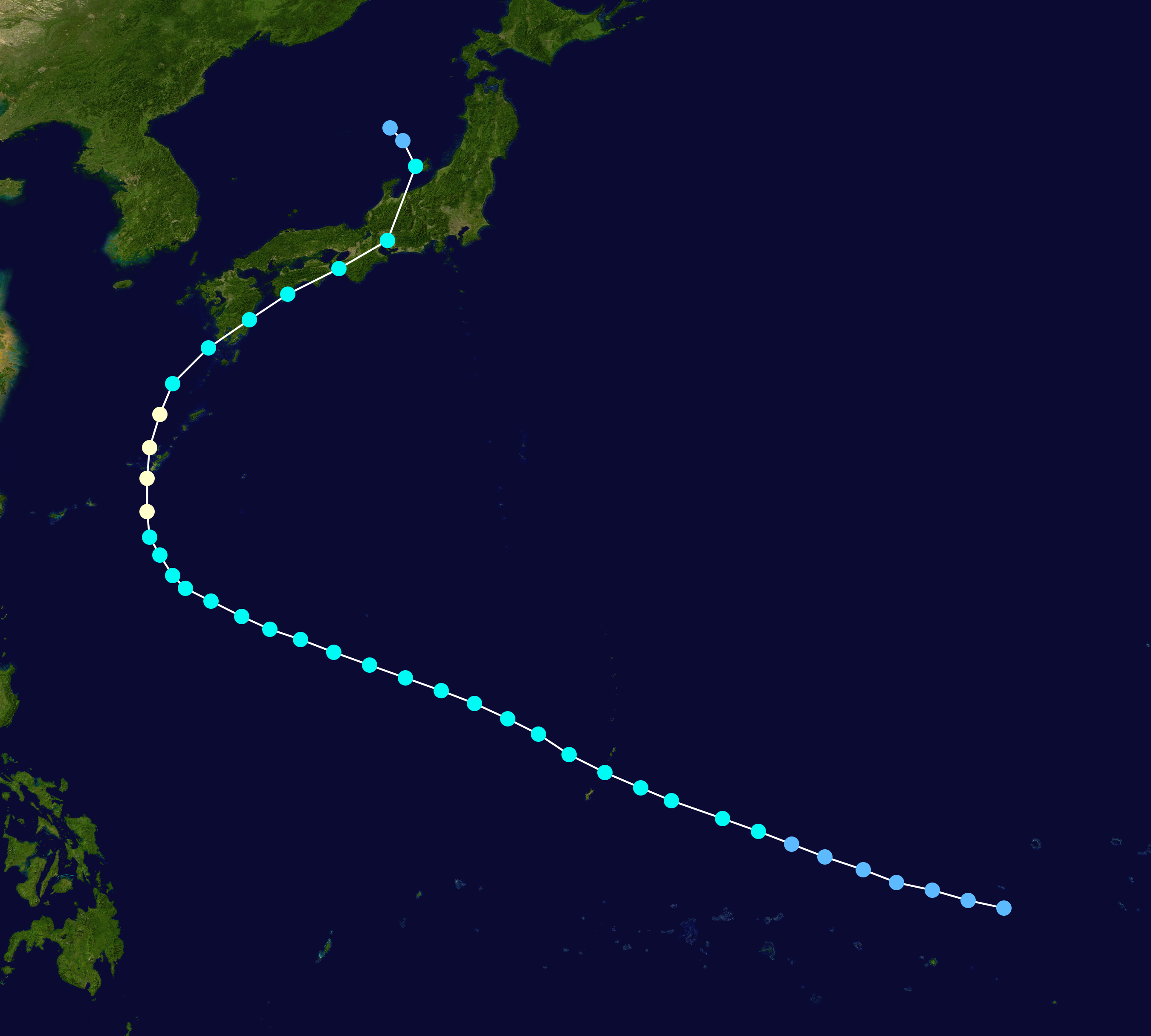 Track map of Typhoon Louise of the 1945 Pacific typhoon season. The points show the location of the storm at 6-hour intervals. The colour represents the storm's maximum sustained wind speeds as classified in the Saffir–Simpson scale (see below), and the shape of the data points represent the nature of the storm, according to the legend below. Saffir–Simpson scale Tropical depression≤38 mph≤62 km/h Category 3111–129 mph178–208 km/h Tropical storm39–73 mph63–118 km/h Category 4130–156 mph209–251 km/h Category 174–95 mph119–153 km/h Category 5≥157 mph≥252 km/h Category 296–110 mph154–177 km/h Unknown Storm type Tropical cyclone Subtropical cyclone Extratropical cyclone / Remnant low / Tropical disturbance / Monsoon depression